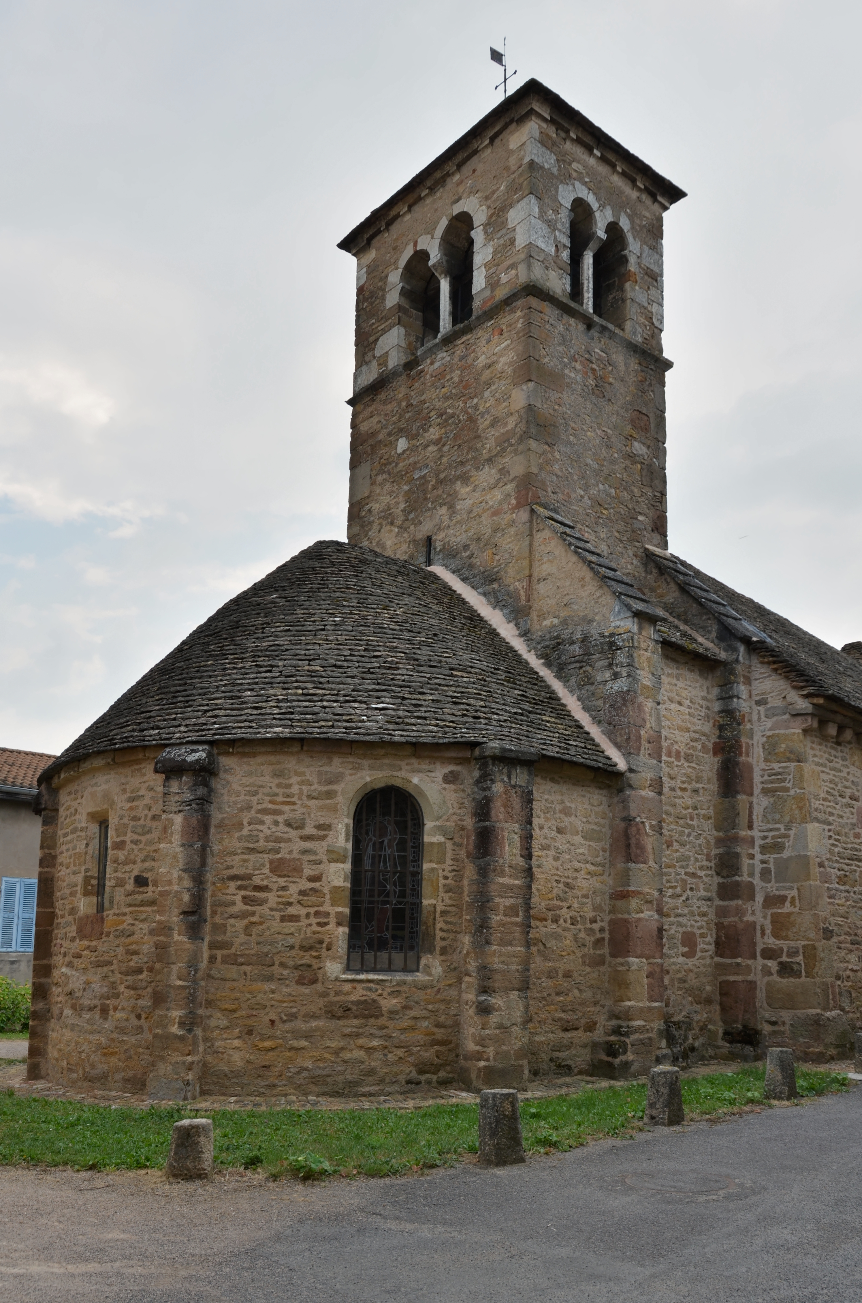 Roman church of Bussières, Saône et Loire (France)